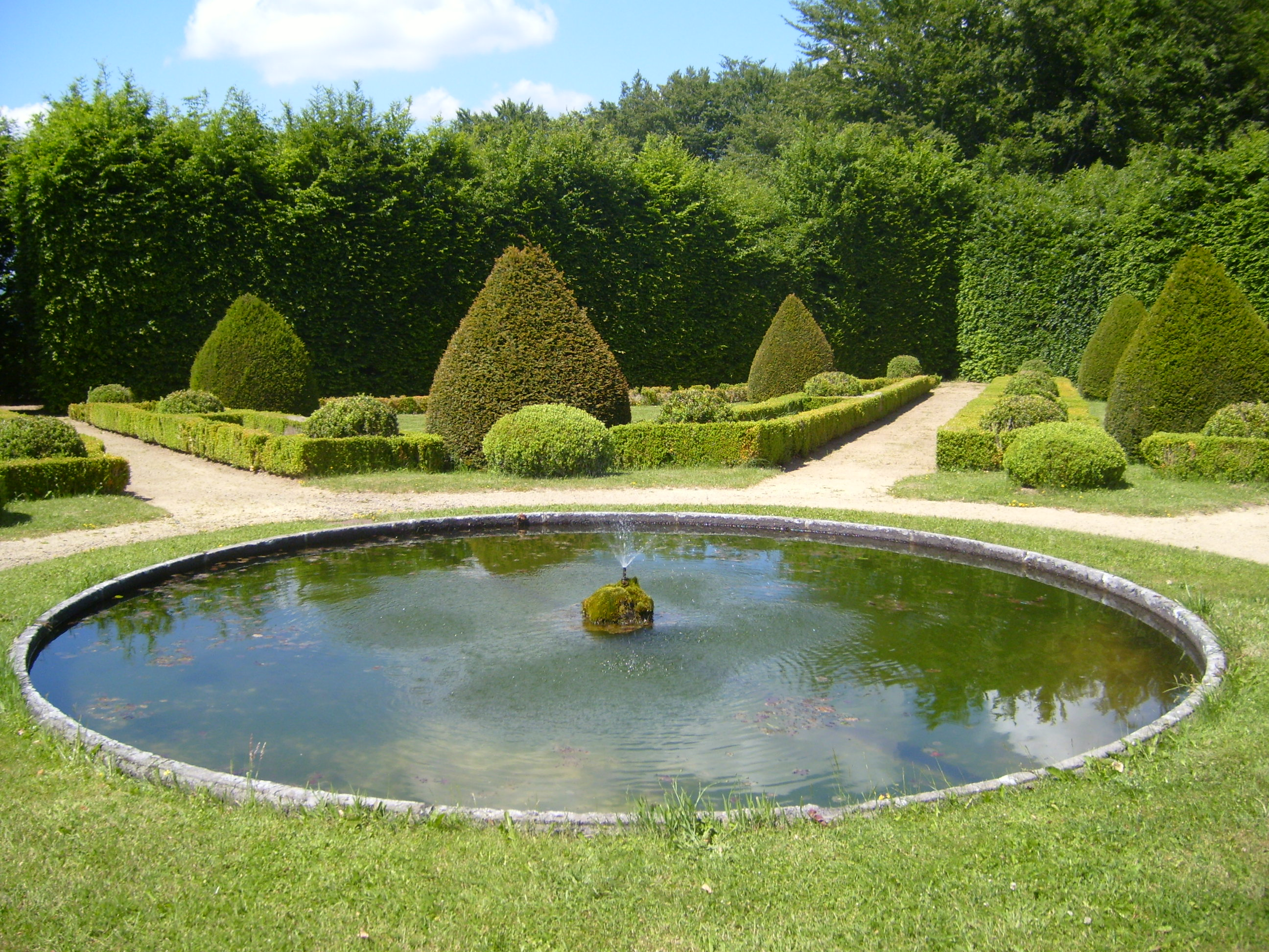 French Garden of the Chateau de Cordes